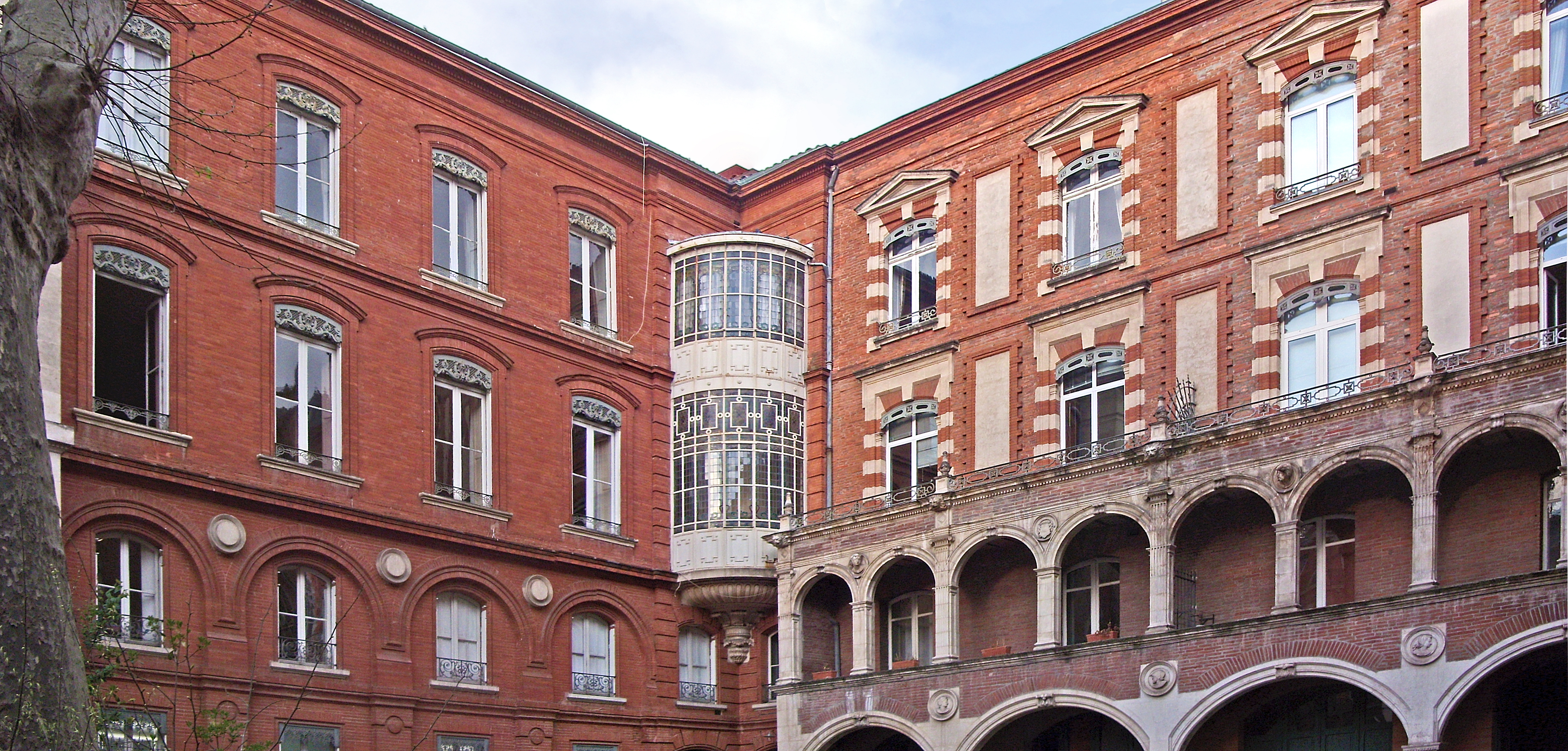 Hôtel de Pins and hôtel Antonin, 46 rue du Languedoc, from Toulouse.